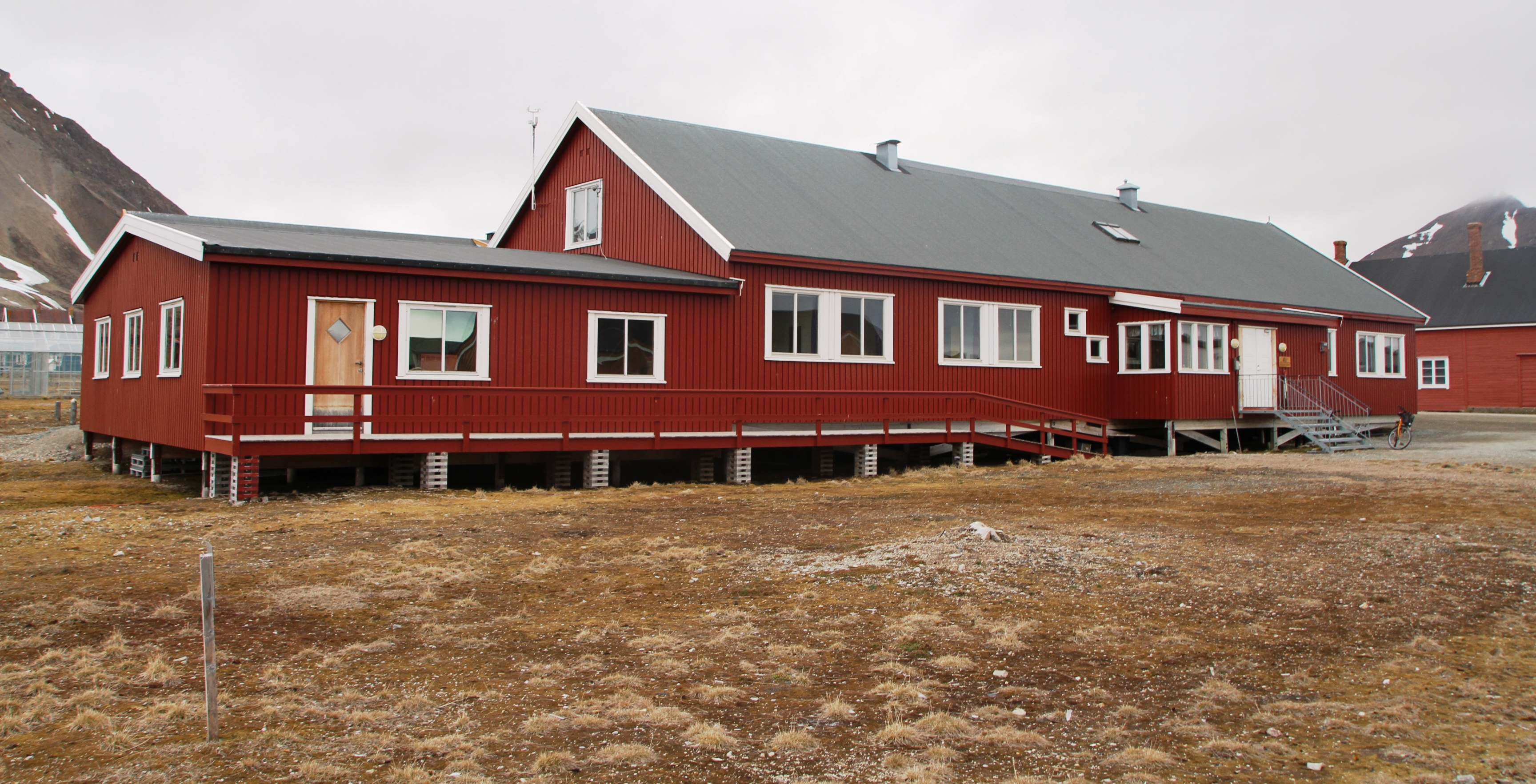 Photo from the science village of Ny-Ålesund, western Spitsbergen. This is the british polar research station.